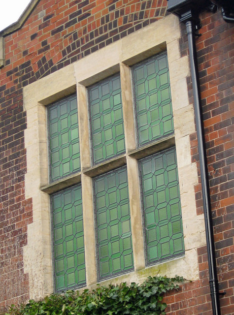 Beacon Garth, Hessle, East Riding of Yorkshire, England.Mullion and Transom Window. This window is situated on the West elevation of Beacon Garth TA0225 : Beacon Garth, Hessle